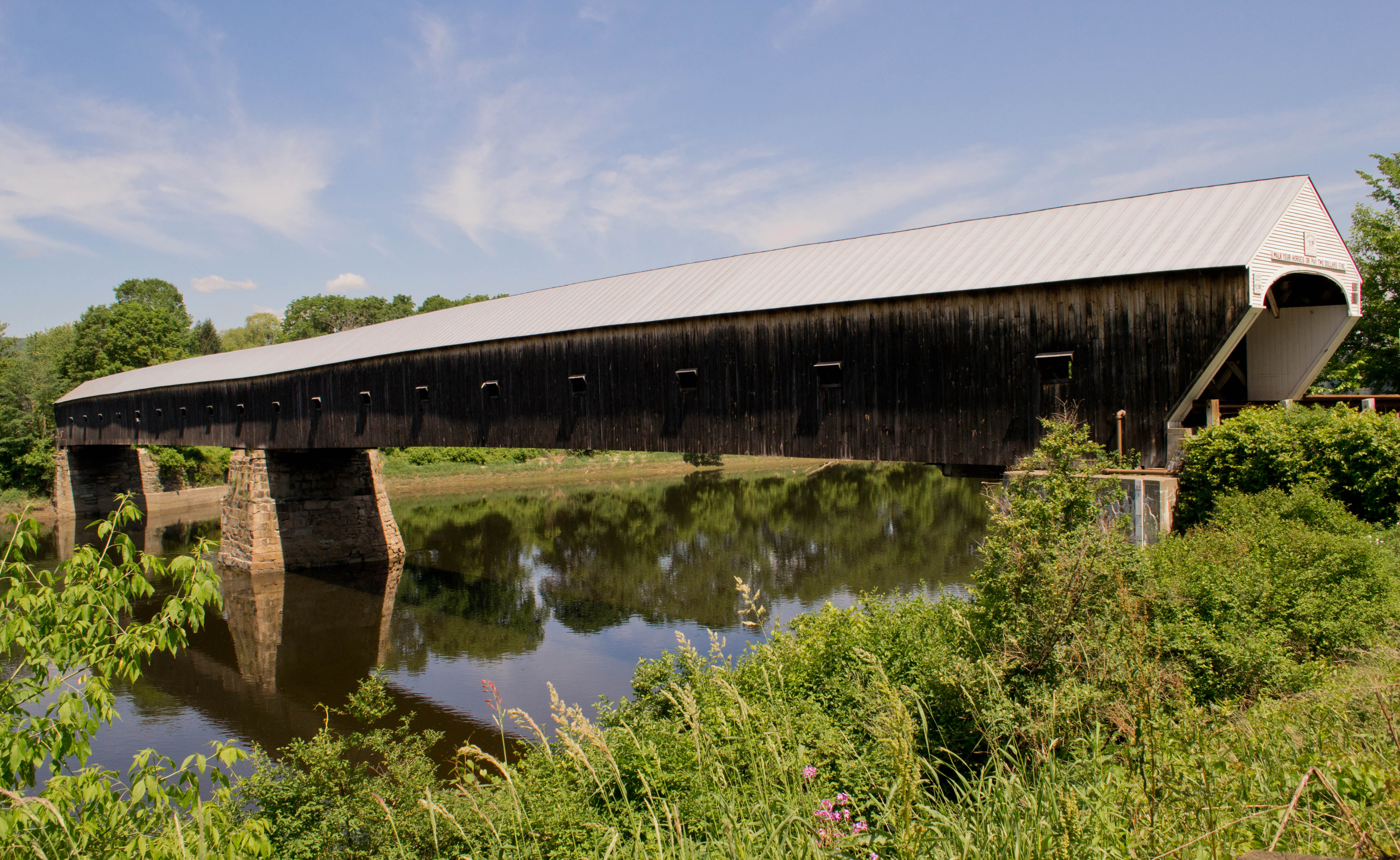 Cornish-Windsor Bridge taken from Cornish, NH